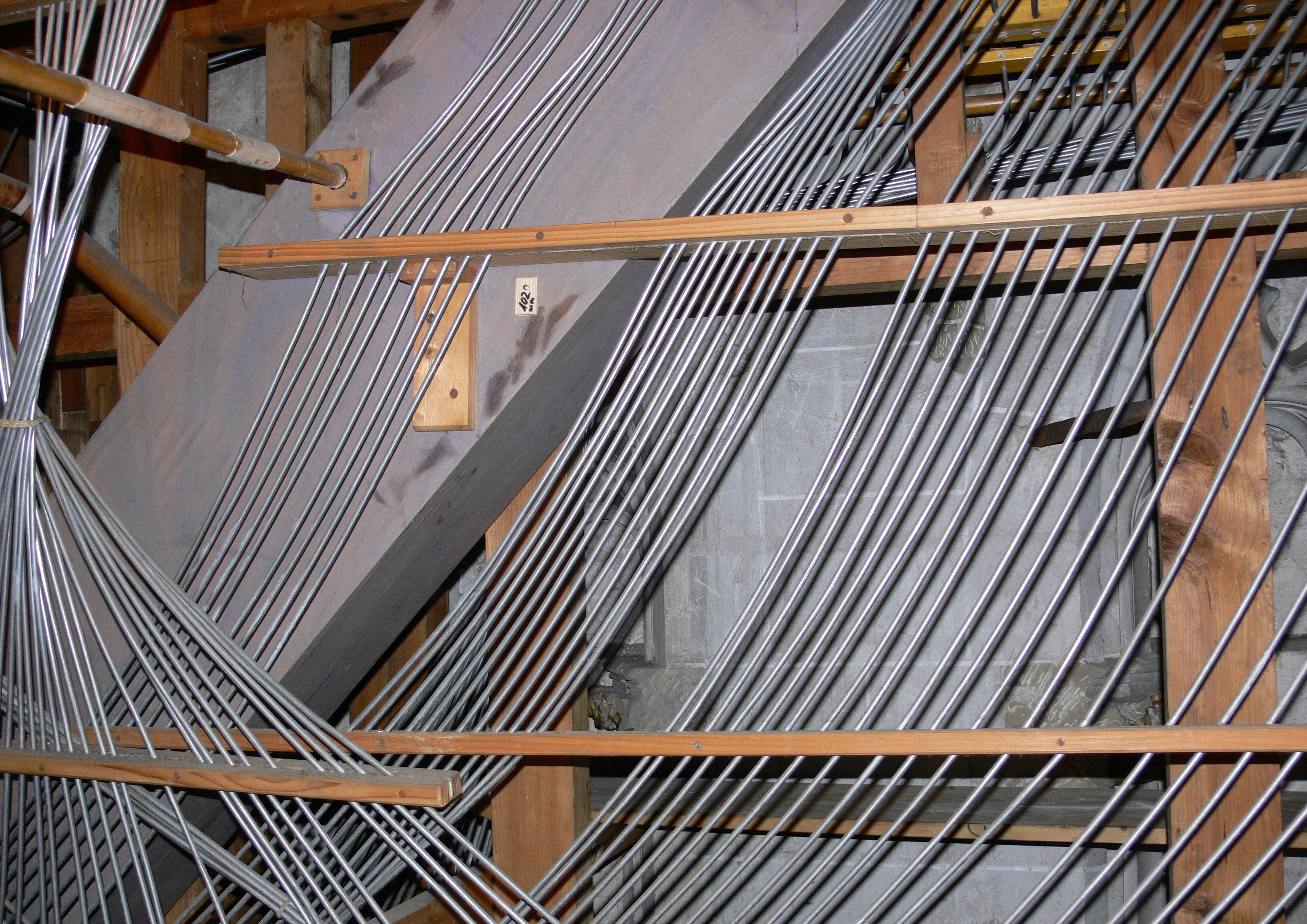 Black-organ of 1900/1901: Lead pipes of tubular-pneumatic action, Schwarz-organs in Salem Minster in Salem, Germany (Wilhelm Schwarz, 1901)